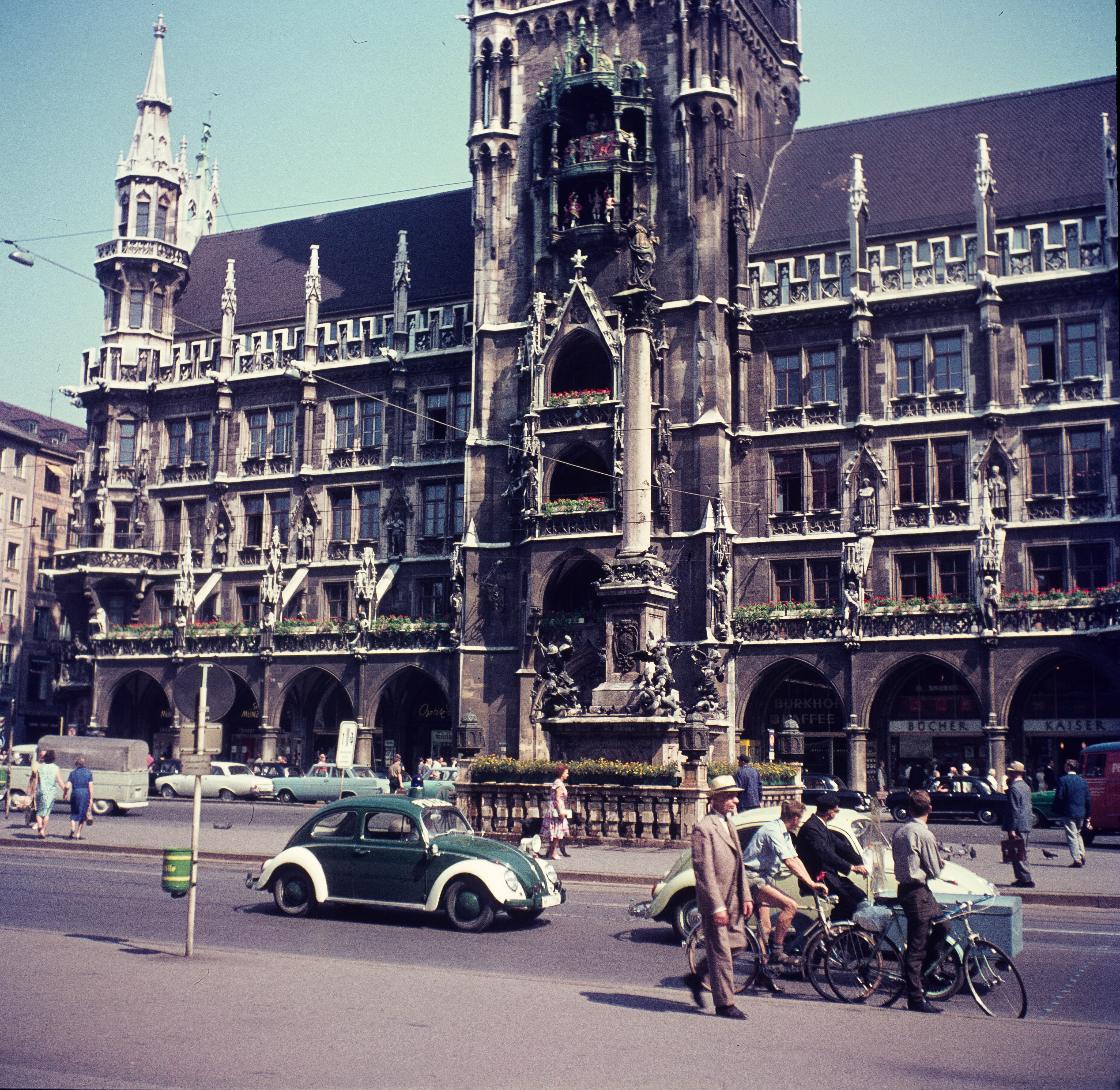 Munich Townhall 1964